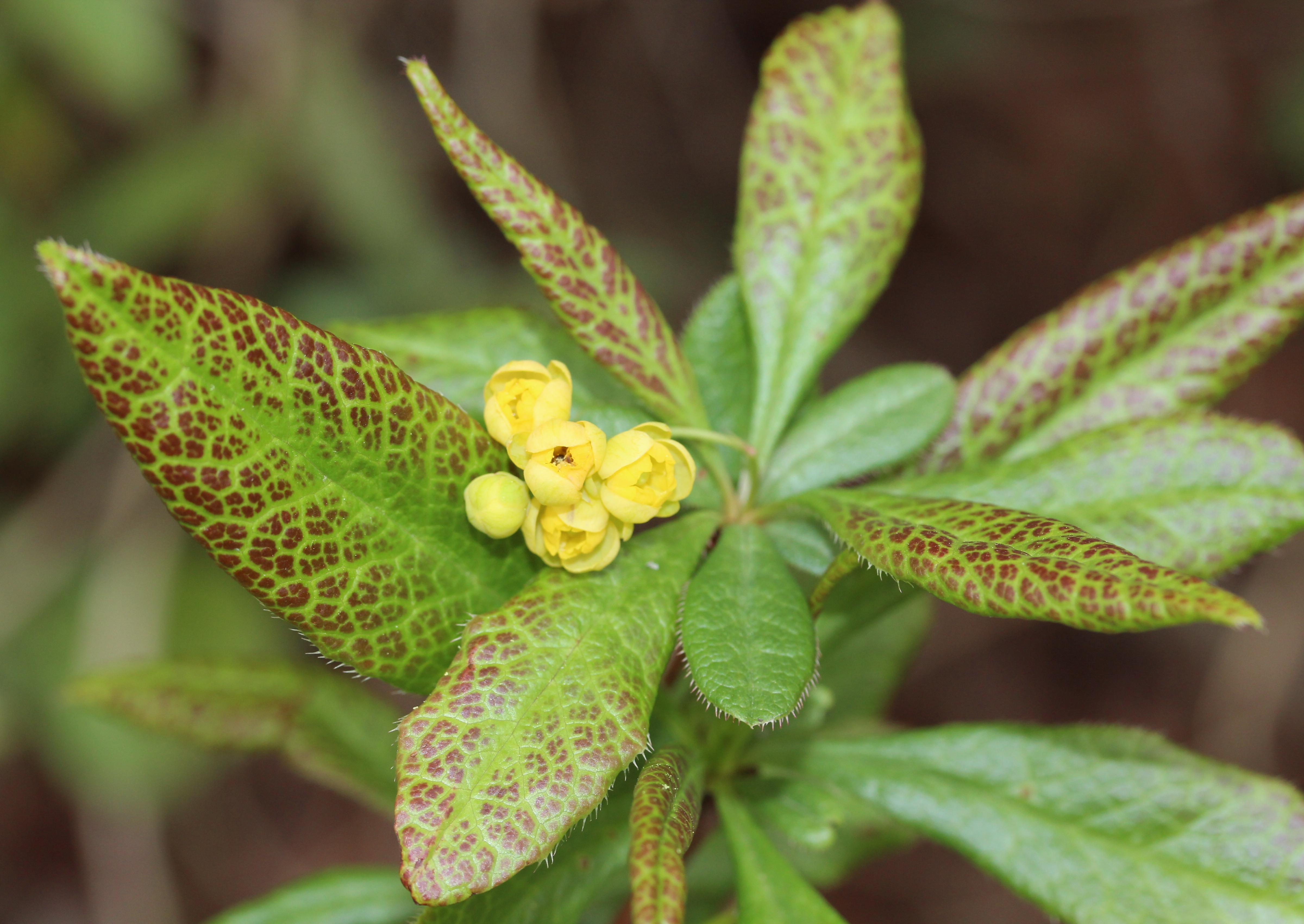 Berberis sieboldii with flower, in Kasugai, Aichi prefecture, Japan.